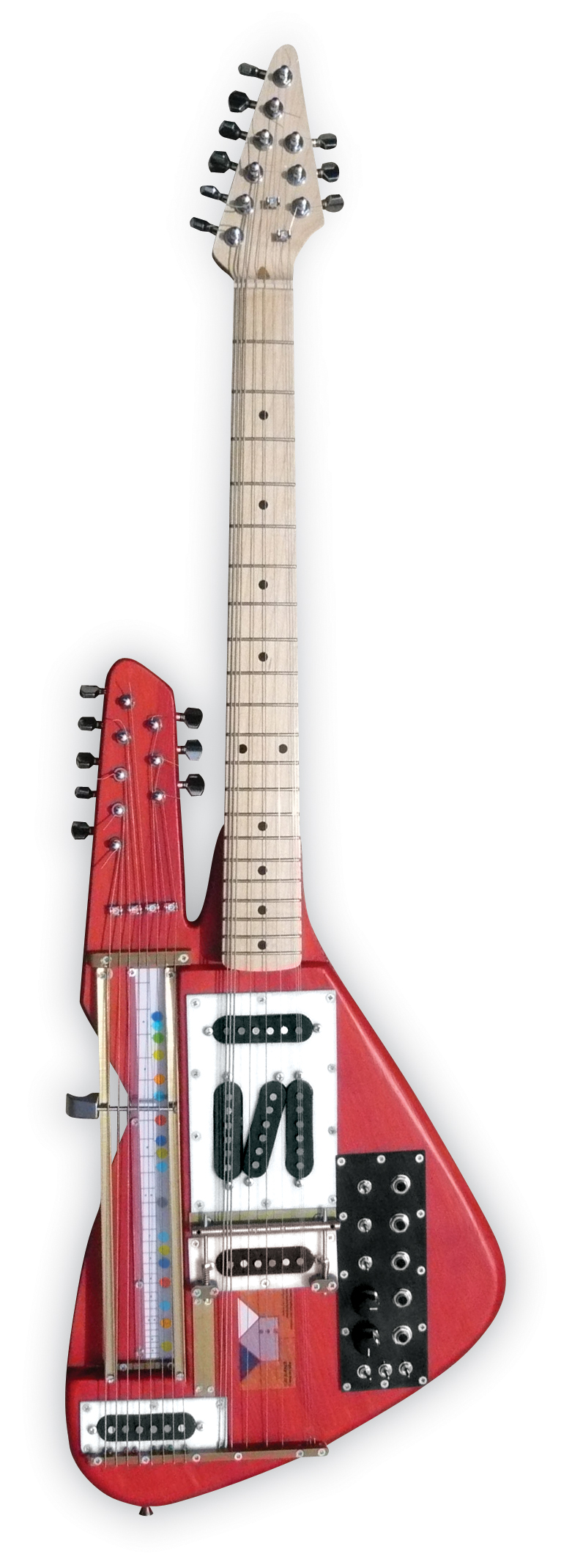 guitar made for Finn Andrews of the Veils